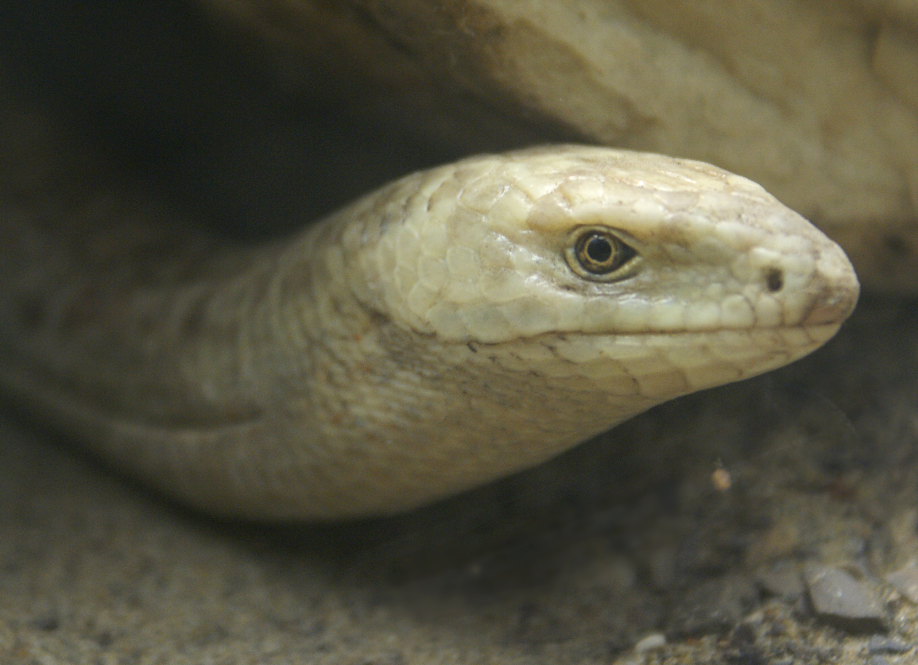 Scheltopusik or European Legless Lizard (Ophisaurus apodus)